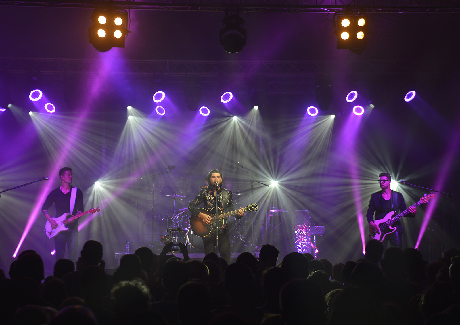 Music band Pectus during concert in Bielsko-Biala. Music photography.